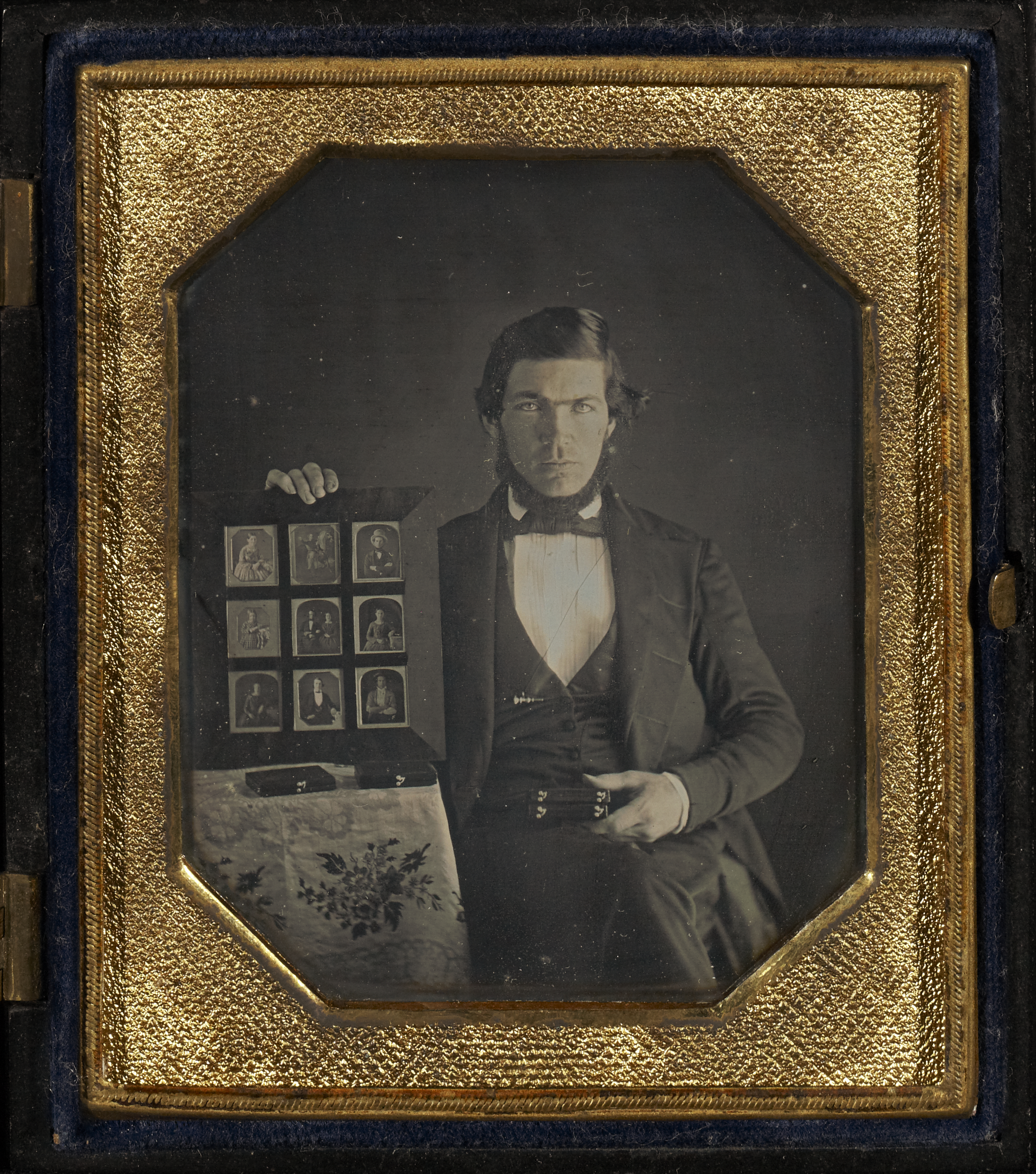 Portrait of a Daguerreotypist Displaying Daguerreotypes and Cases